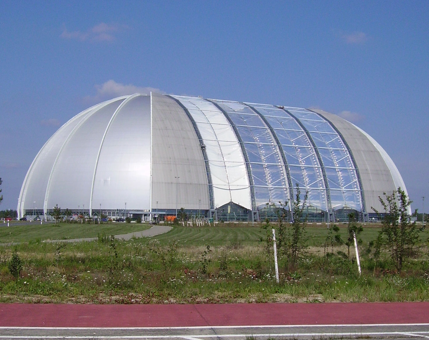 Description: Cargolifter hangar in Brandenburg (Germany) Source: own photography Date: August 2005 Author: --Immanuel Giel 14:36, 13 September 2005 (UTC) Other versions: none Cargolifter AG